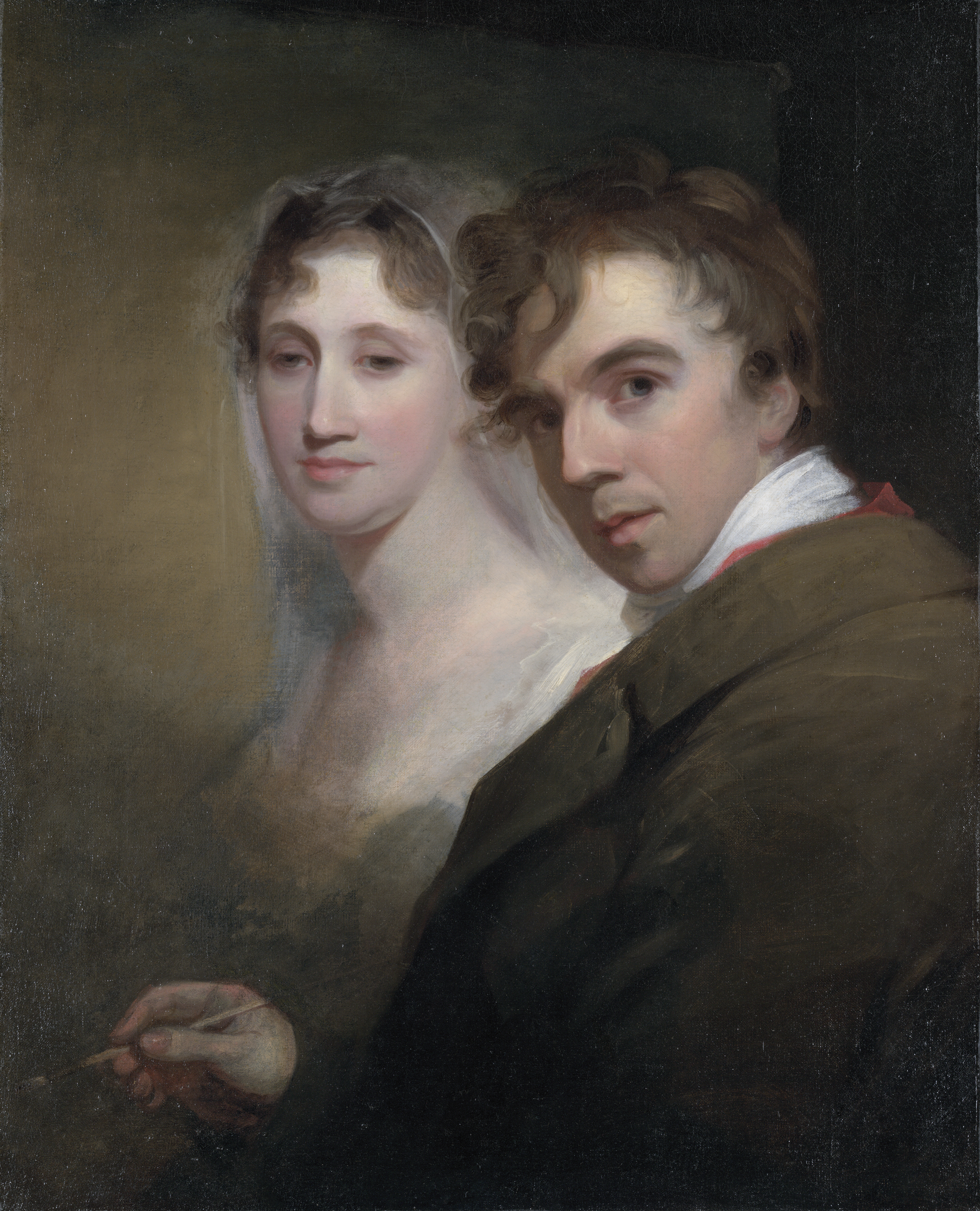 Thomas Sully painting his wife, Sarah Annis Sully oil on canvas 67.9 x 55.6 cm ca. 1810